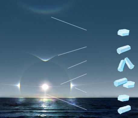 Ice halos and ice crystals forming each particular halo.